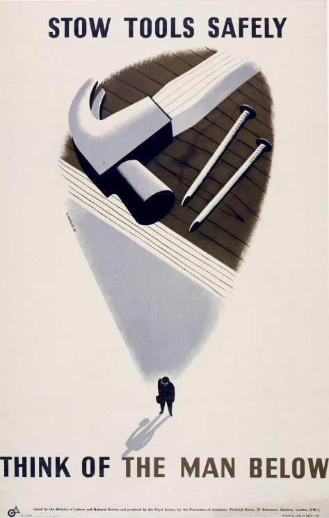 Lithograph poster for the United Kingdom Ministry of Labour and National Service, and produced by the Royal Society for the Prevention of Accidents, and illustrated by Tom Eckersley, 1942